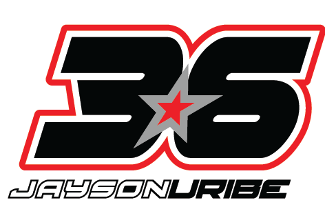 Jayson Uribe 36 logo